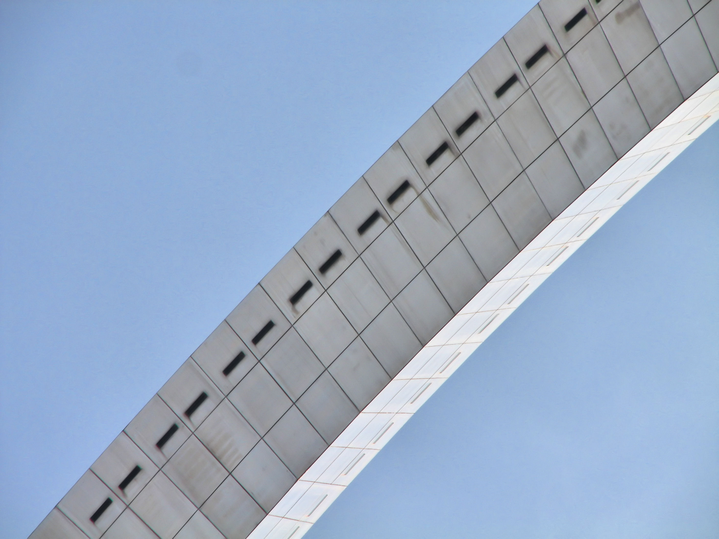 Testing out the zoom. It works